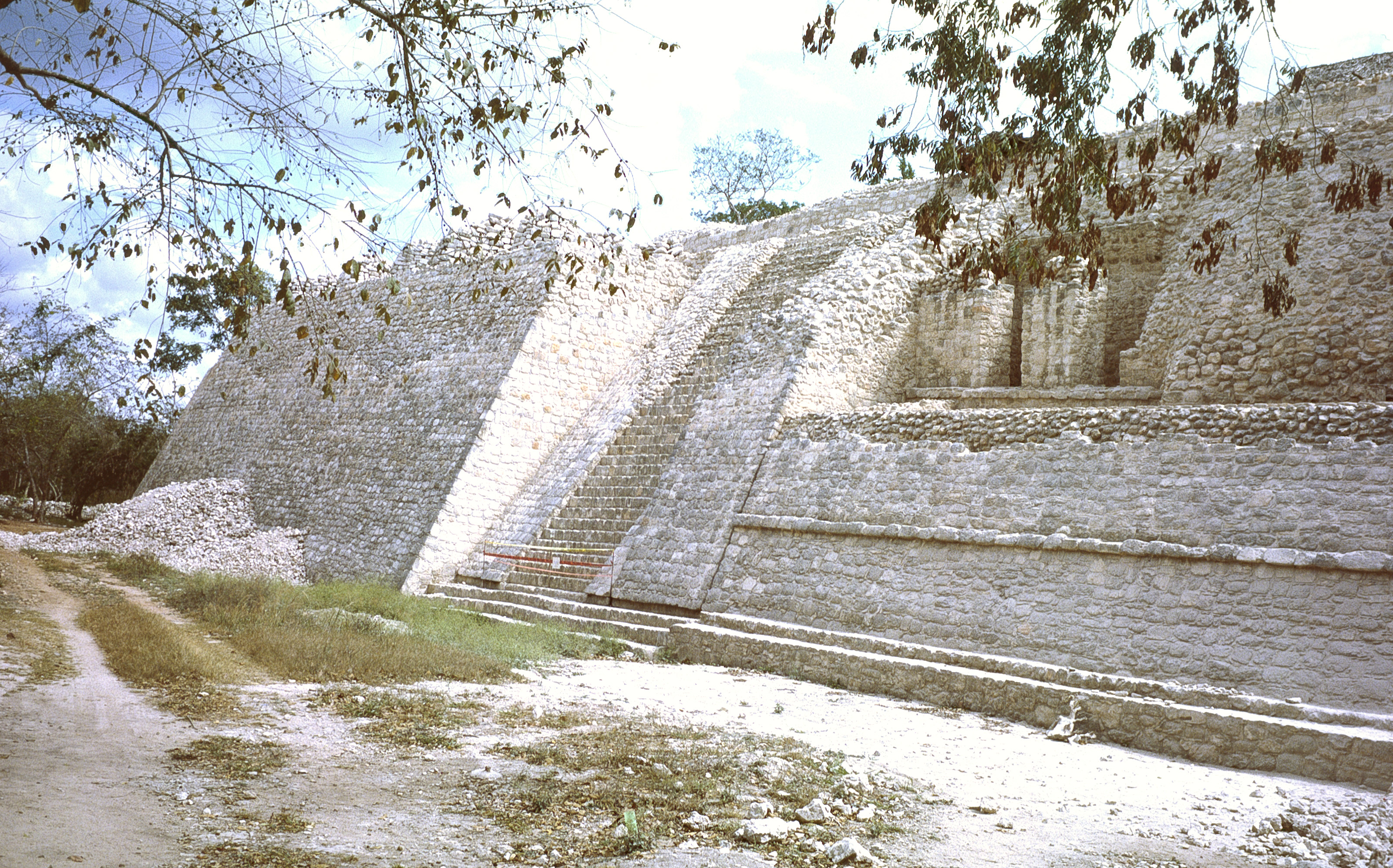 Izamal, Yucatan, Mexico: Side of Kinich Kak Moo pyramid